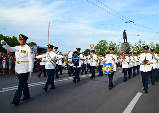 Военные оркестры Черноморского флота и штаба ЮВО приняли участие в международном фестивале военных оркестров «Military Tattoo» в Севастополе